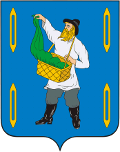 Savinsky rayon (Ivanovo oblast), coat of arms